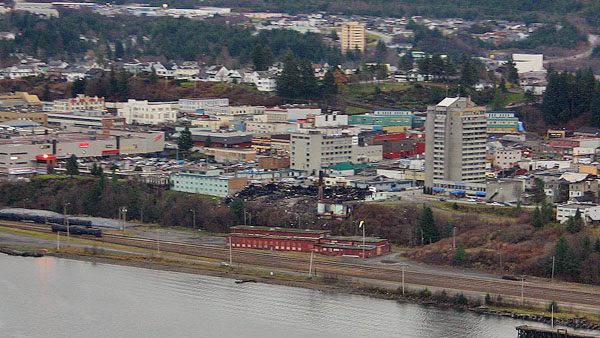 Downtown Prince Rupert, showing the site of a recent apartment building fire.